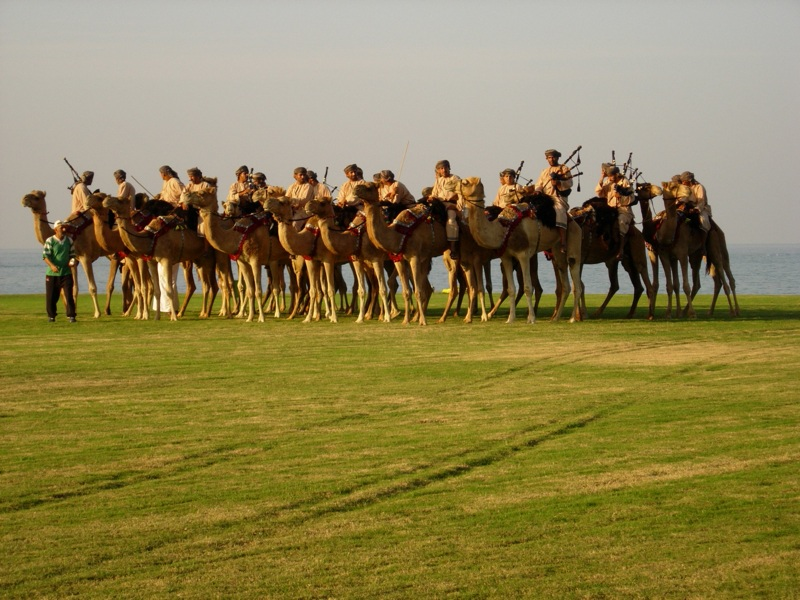 This photo was taken on November 15, 2005 in Sidab, Muscat, Masqat, OM, using a Nikon E5200. Camels and the Royal Oman Police in Muscat